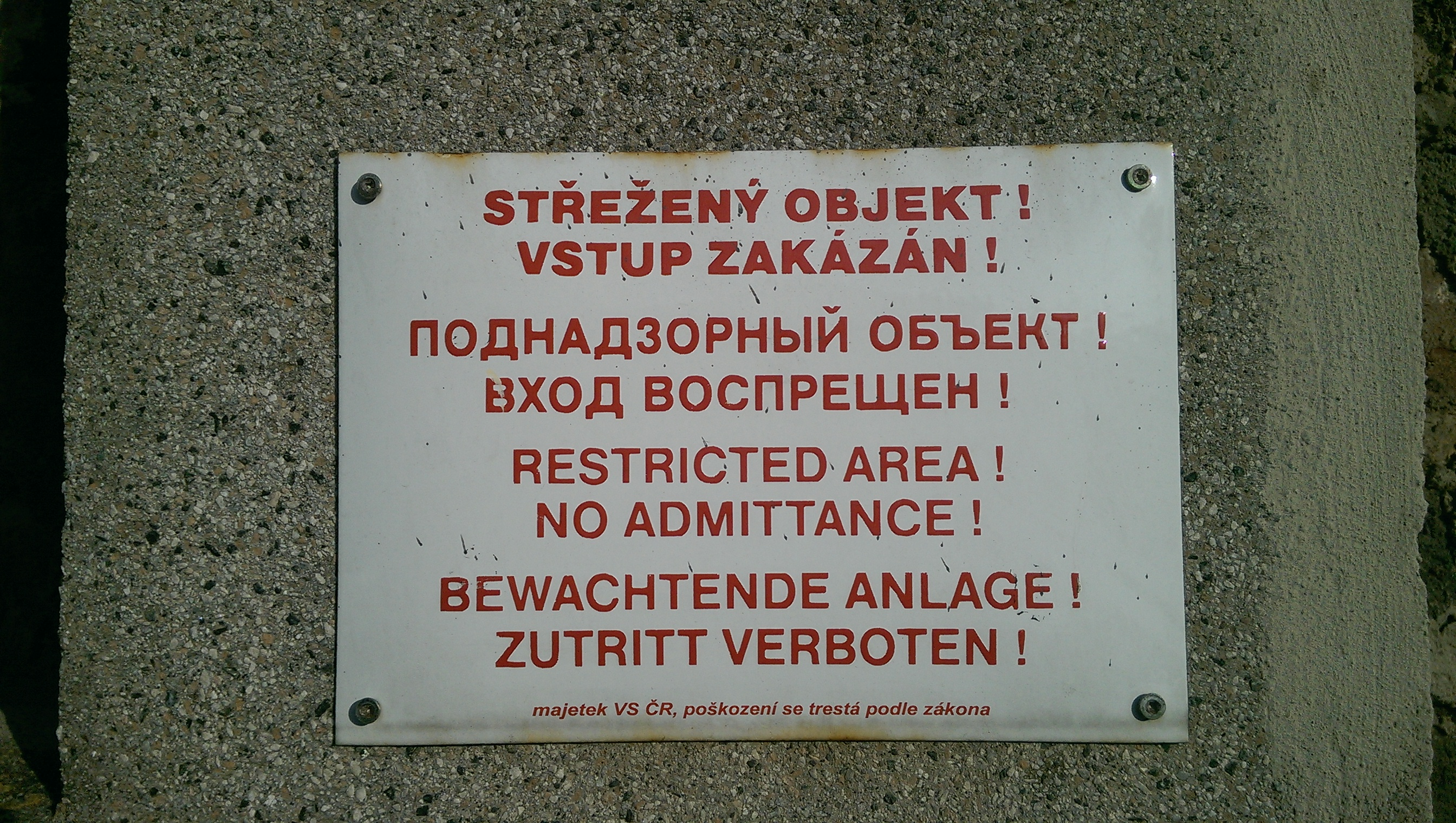 A former prison connected to the building of the District Court in Mladá Boleslav. Currently used as a movie location.